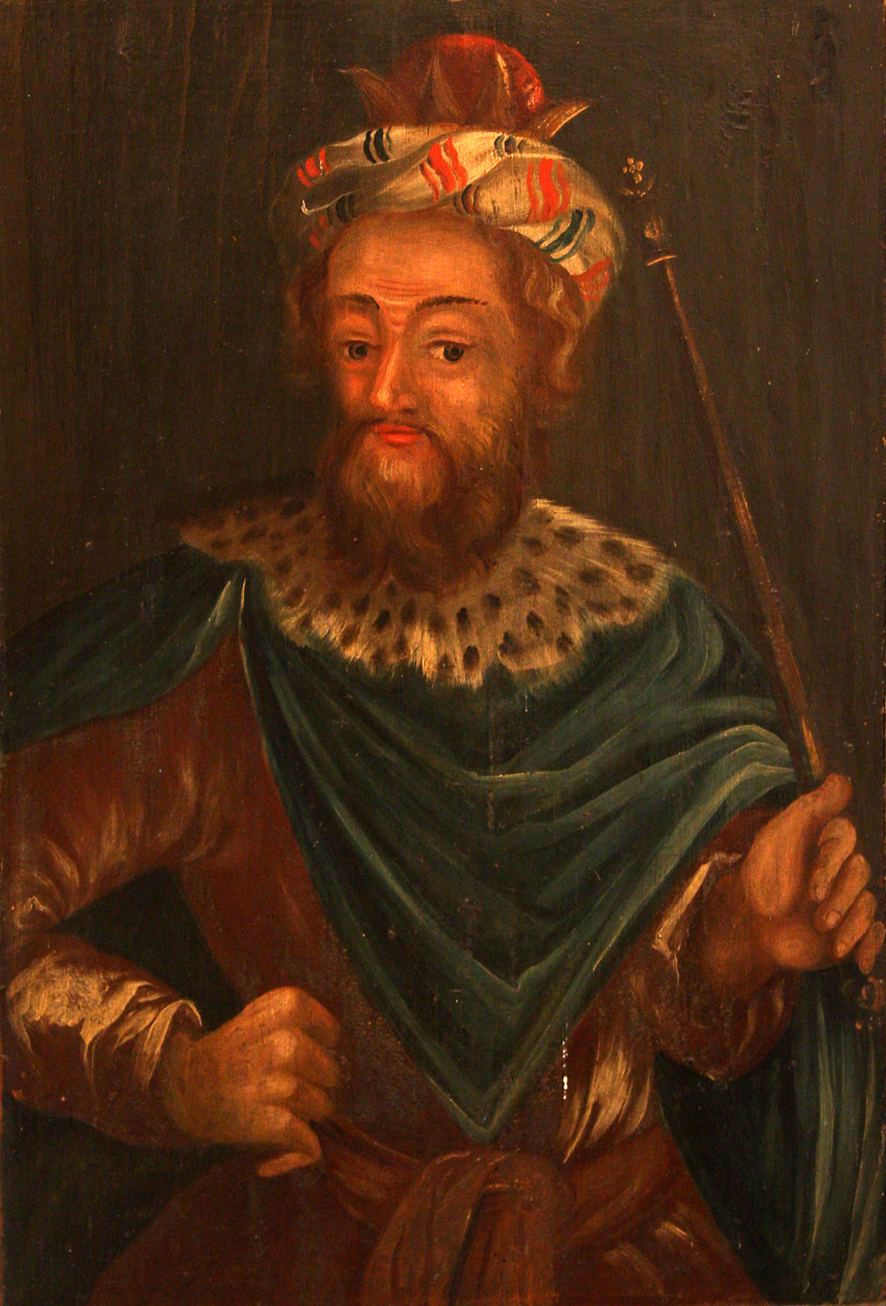 King Josiah on a 17th century painting by unknown artist in the choir of Sankta Maria kyrka in Åhus, Sweden.